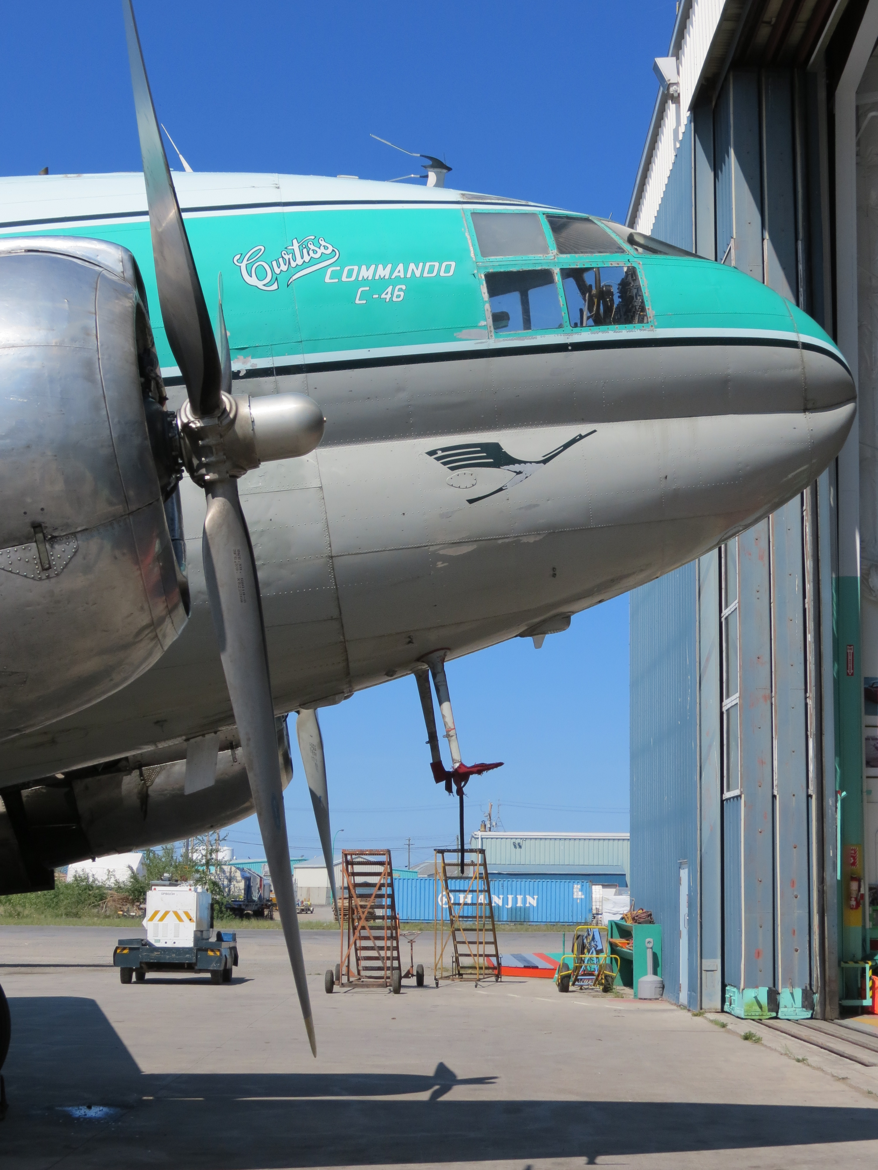 One of Buffalo Airway's C-46 outside of the Buffalo hangar. My question is how the hell do you taxi this thing from way up there??